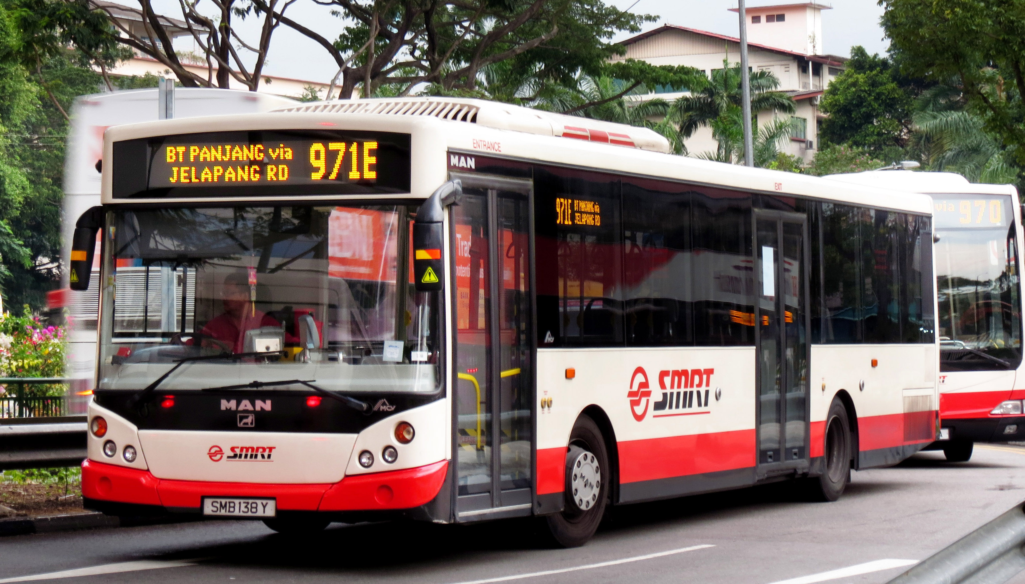 A nearside view of MCV-bodied MAN A22 bus.